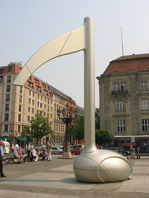 „Masterworks of Music“, fifth sculpture (from six) of the Berliner Walk of Ideas on the occasion of 2006 FIFA World Cup Germany. The notes symbolise Germany as a nation of music with famous composers and interpreters. Unveiling: 5 May 2006 on Gendarmenmarkt.